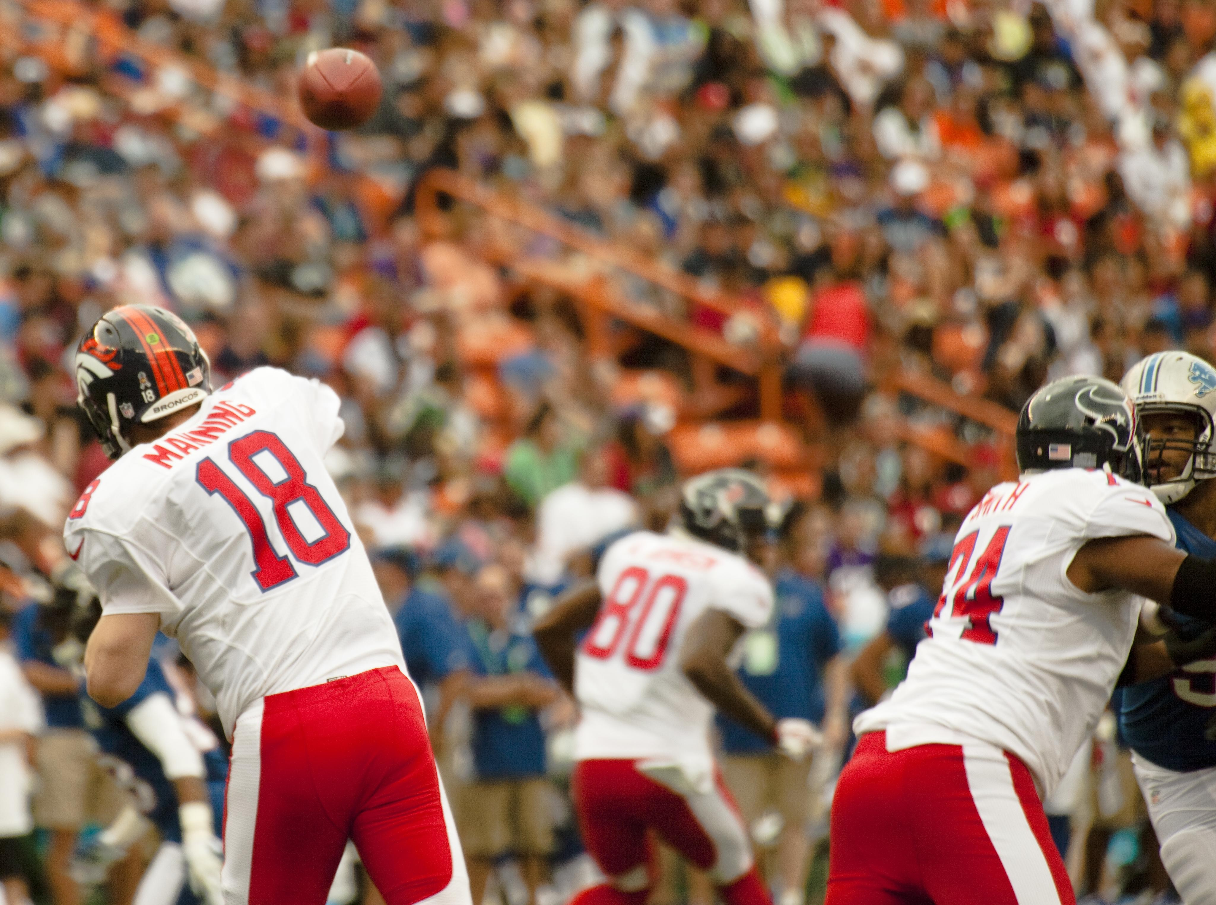 Denver Broncos quarterback Peyton Manning throws down field during the 2013 NFL Pro Bowl at Aloha Stadium, Jan. 27.